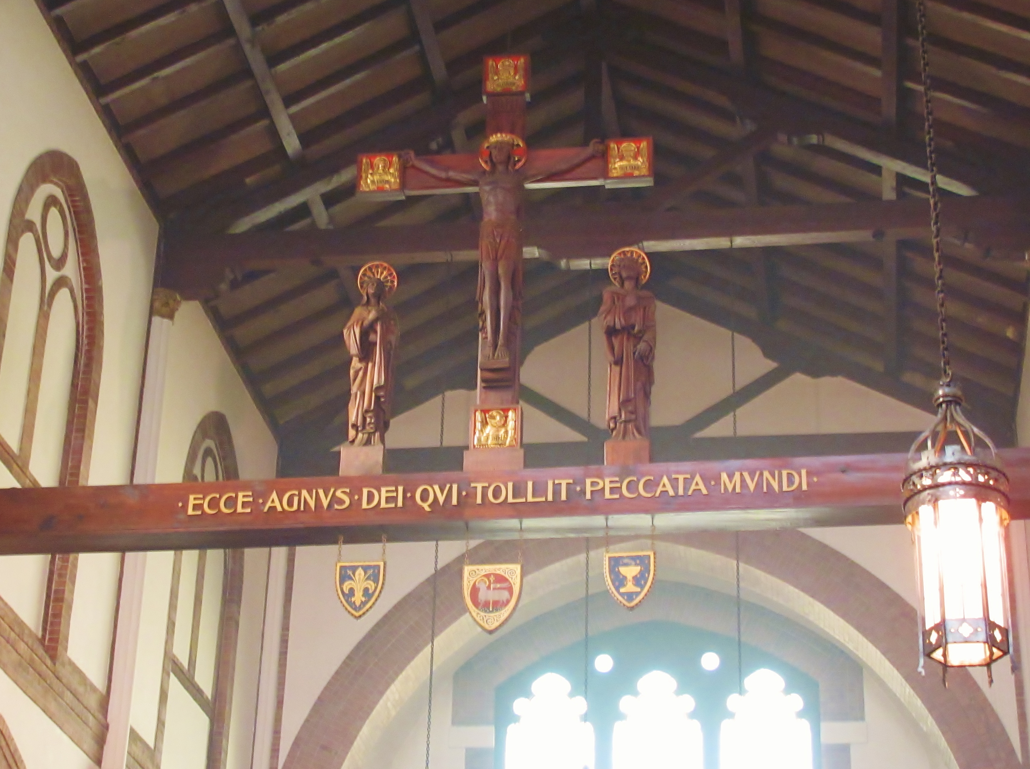 Rood beam carved by Johannes Kirchmayer in 1913, located in the Church of the Saviour, Syracuse, New York.